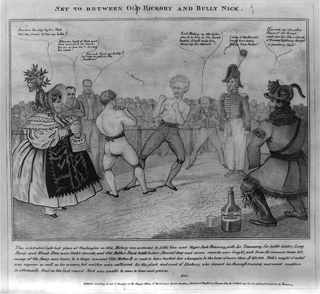 Satire on the public conflict between Andrew Jackson and Nicholas Biddle over the future of the Bank of the United States, and the former's campaign to destroy it. The print is sympathetic to Jackson, portraying him as the champion of the common man against the moneyed interests of the Bank. In the center Biddle (left) and Andrew Jackson square off. An obese woman, Mother Bank, holding a bottle of port stands beside Biddle. Behind her are Biddle supporters Daniel Webster and Henry Clay. Mother Bank: "Darken his day lights, Nick Put the Screws to him my tulip!" Webster: "Blow me tight if Nick ain't been crammed too much{under} You see as how he's losing his wind!" On the right are Jackson's supporters: Martin Van Buren, Major Jack Downing and "Joe Tammany," a frontiersman in buckskins and raccoon cap. On the ground next to Tammany is a bottle of "Old Monongohala Whiskey." Downing: "I swan if the Ginral hain't been taken lessons from Fuller!" Tammany: "Hurrah my old yallow flower of the forrest, walk into him like a streak of Greased lightning through a gooseberry bush!" Below a mock account of the event, as reported in the Washington "Globe," is given: "This celebrated fight took place at Washington in 1834, . . . Several long and severe rounds were fought, and from the immense sums bet, many of the fancy were losers to a large amount Old Mother B. is said to have backed her champion to the tune of more than {dollar}150,000--Nick's weight of metal was superior as well as his science, but neither were sufficient for the pluck and wind of Hickory, who shewed his through training and sound condition so effectually that in the last round Nick was unable to come to time and gave in. This impression lacks the imprint "Drawn by one of the Fancy" found on impressions cited by Weitenkampf and Murrell.